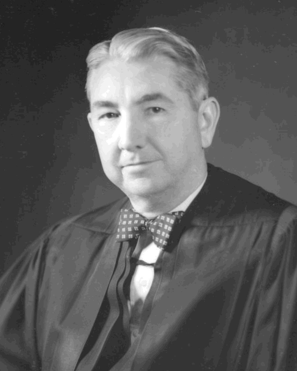 Tom C. Clark